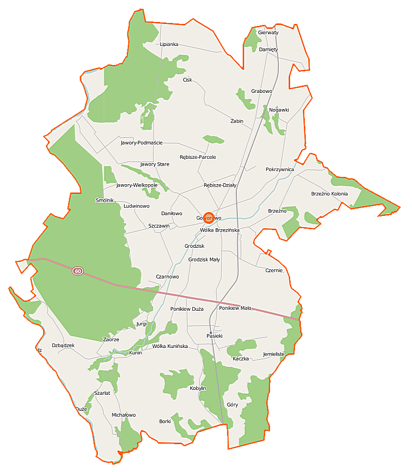 Map of Gmina Goworowo, Poland This map of Goworowo (gmina) was created from OpenStreetMap project data, collected by the community. This map may be incomplete, and may contain errors. Don't rely solely on it for navigation. Border coordinates52.995021.4117←↕→21.701452.7947